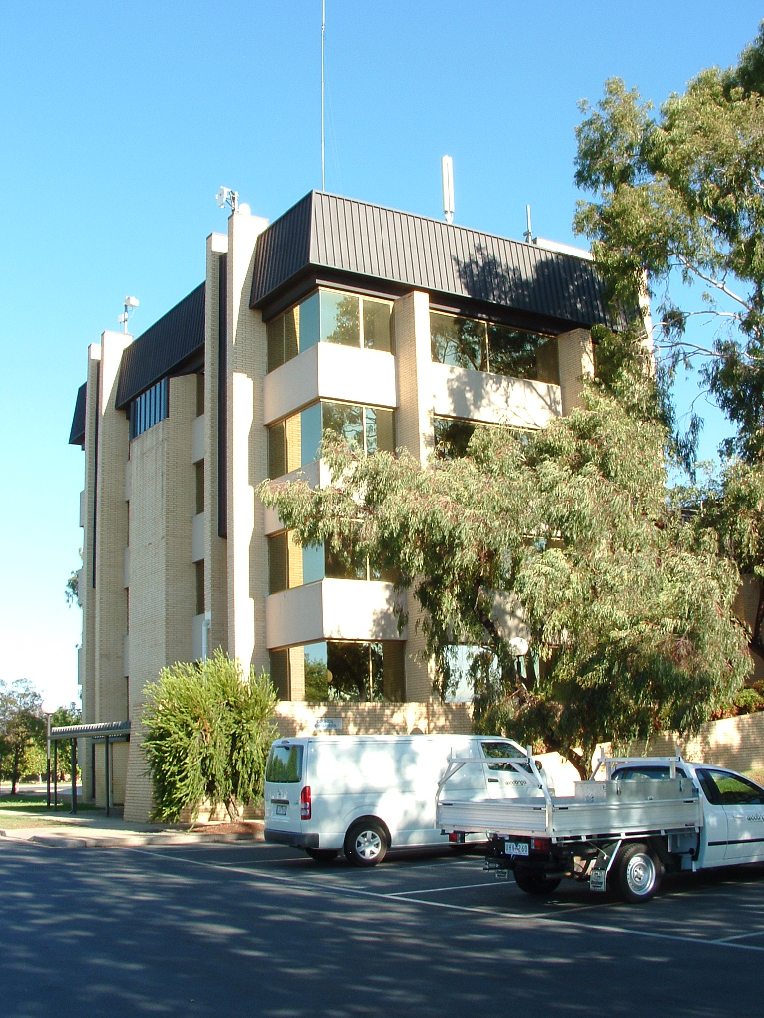 Wodonga Council Offices, Hovell Street. Taken by Blarneytherinosaur.